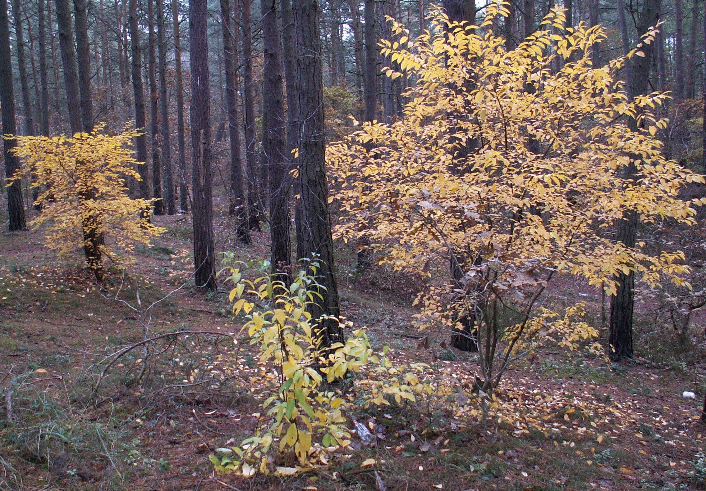 Prunus serotina during autumn